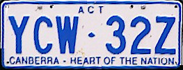 Australian vehicle number plate - ACT Picture taken by AYArktos